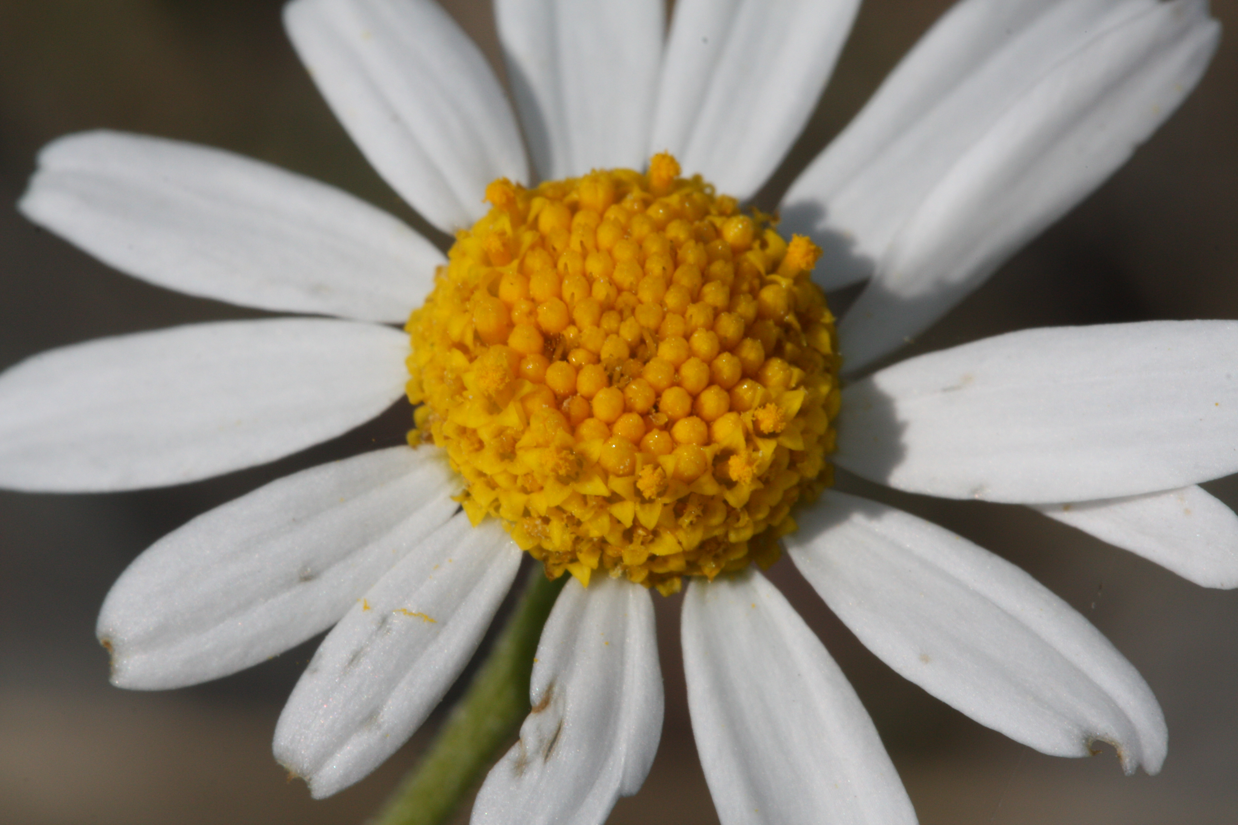 Corn Chamomile, Field Chamomile